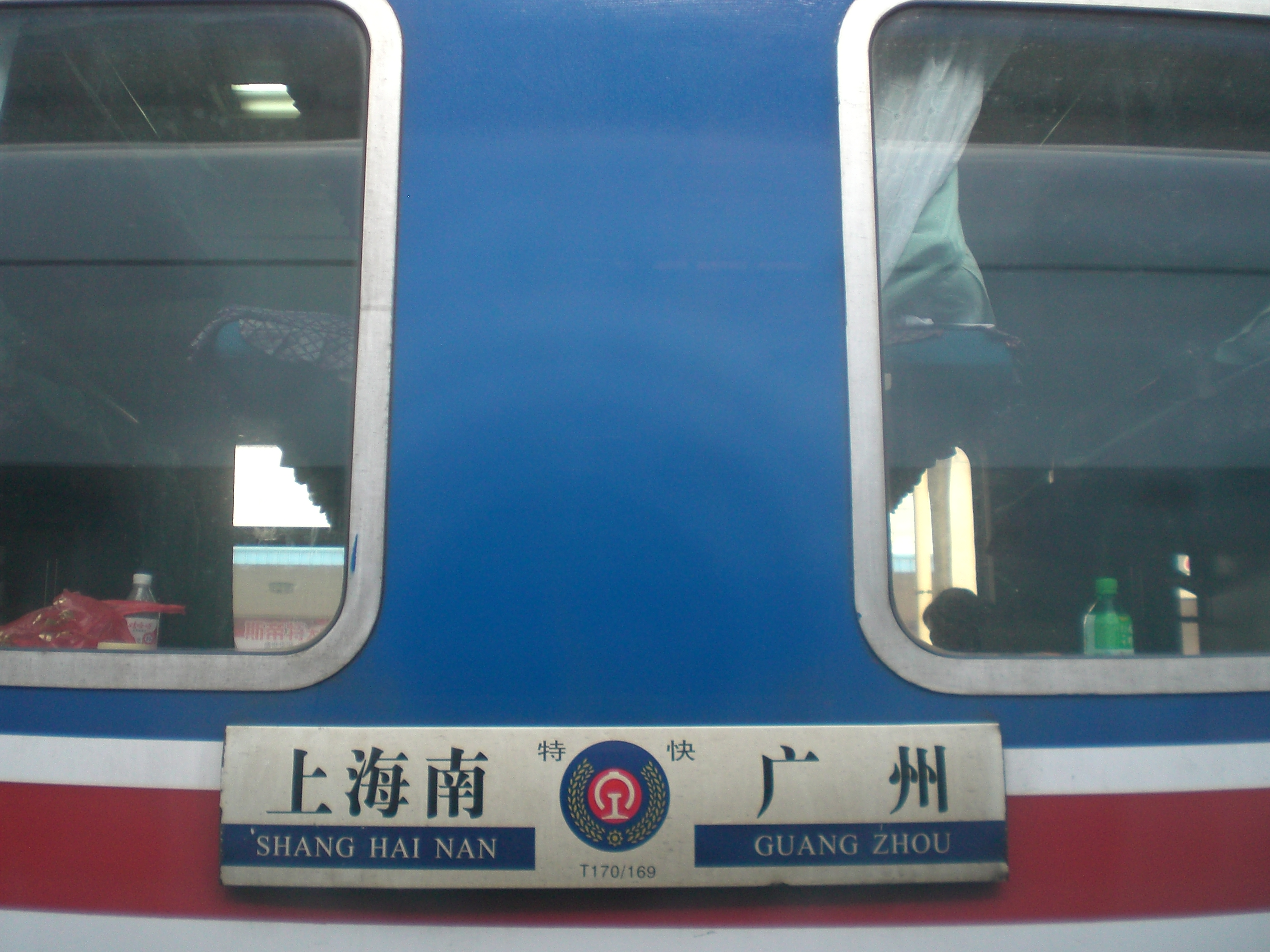 Sleeper train Shanghai - Guangzhou during Spring Festival migration 2009.